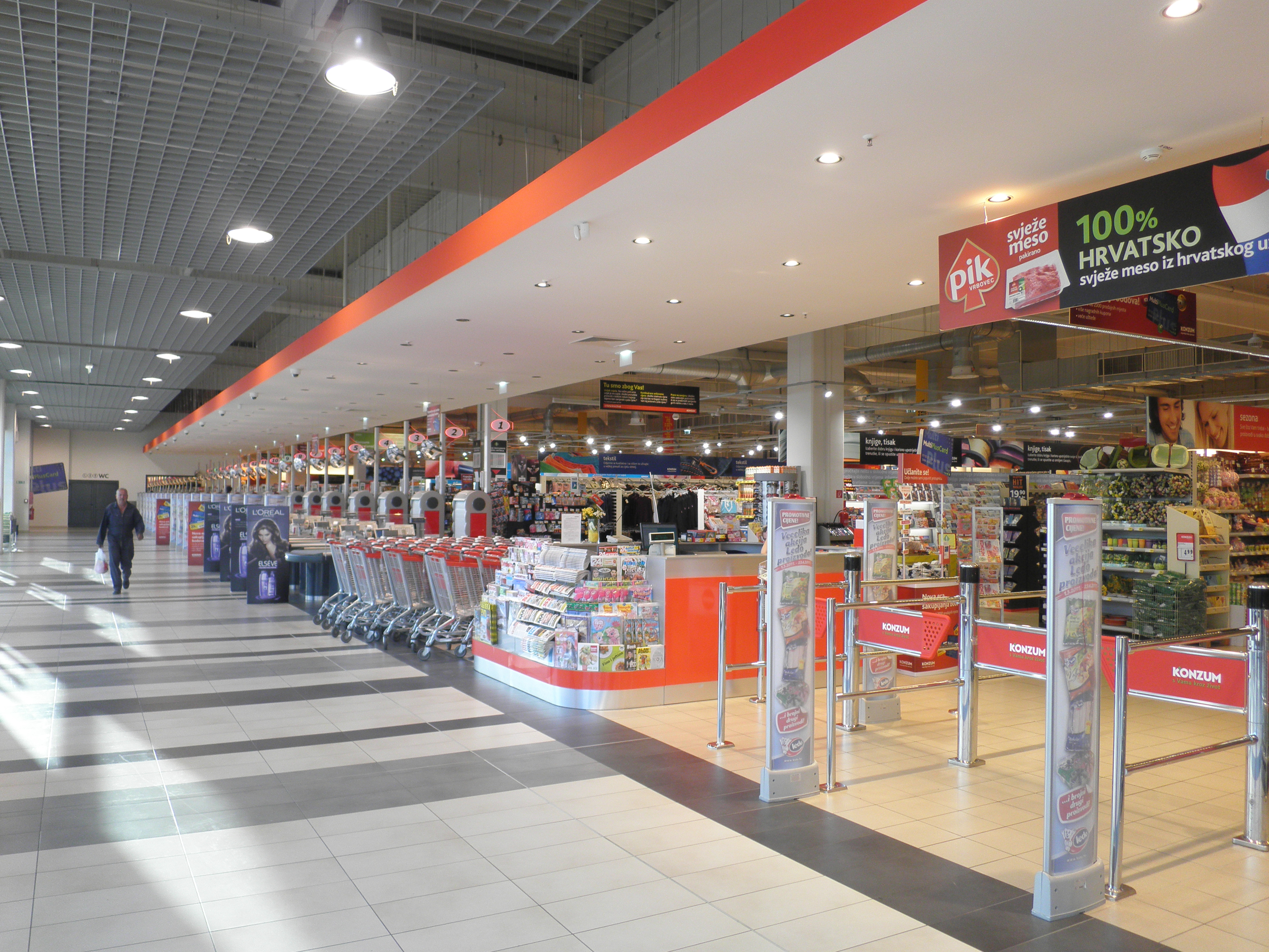 Inside one of Croatia's largest and most modern supermarkets, Konzum Super Split-Sirobuja.